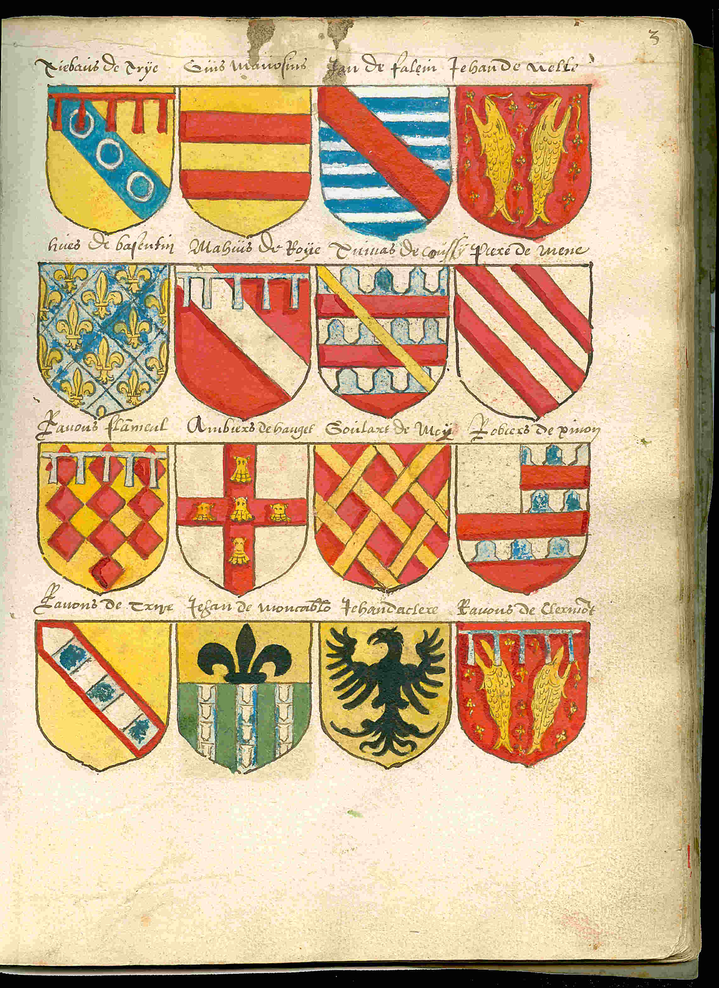 Page 03 from a copy of the Beyeren armorial / Wapenboek Beyeren from ca. 1600. The original Beyeren armorial from 1405 can be viewed at the website of the KB